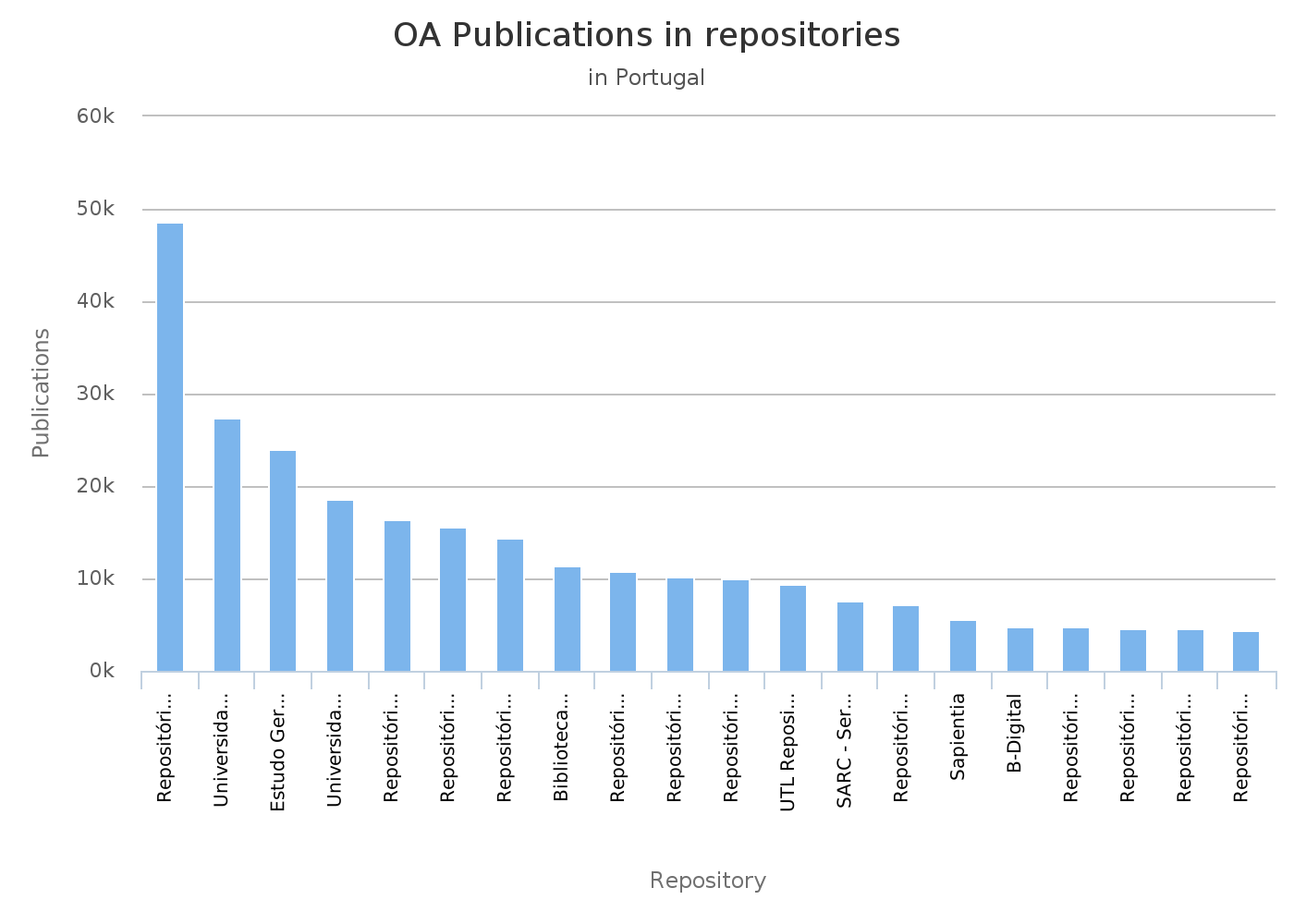 Bar graph describing open access to scholarly communication in Portugal